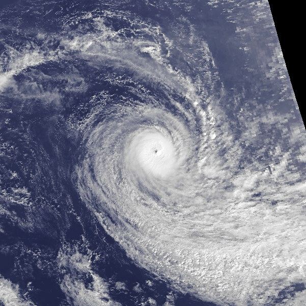 Severe Tropical Cyclone Billy-Lila on May 10, 1986